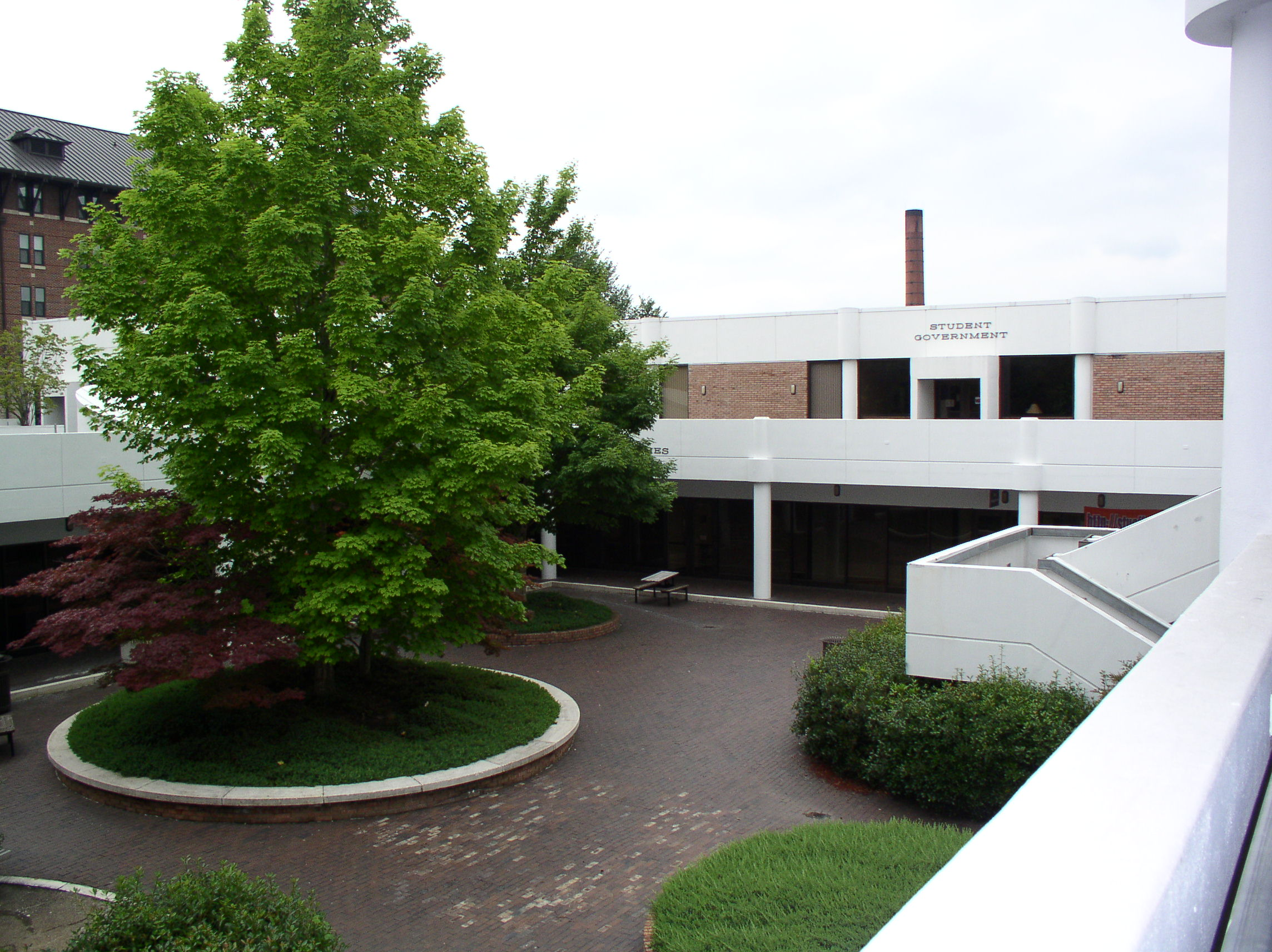 Atrium of University Union at Clemson University